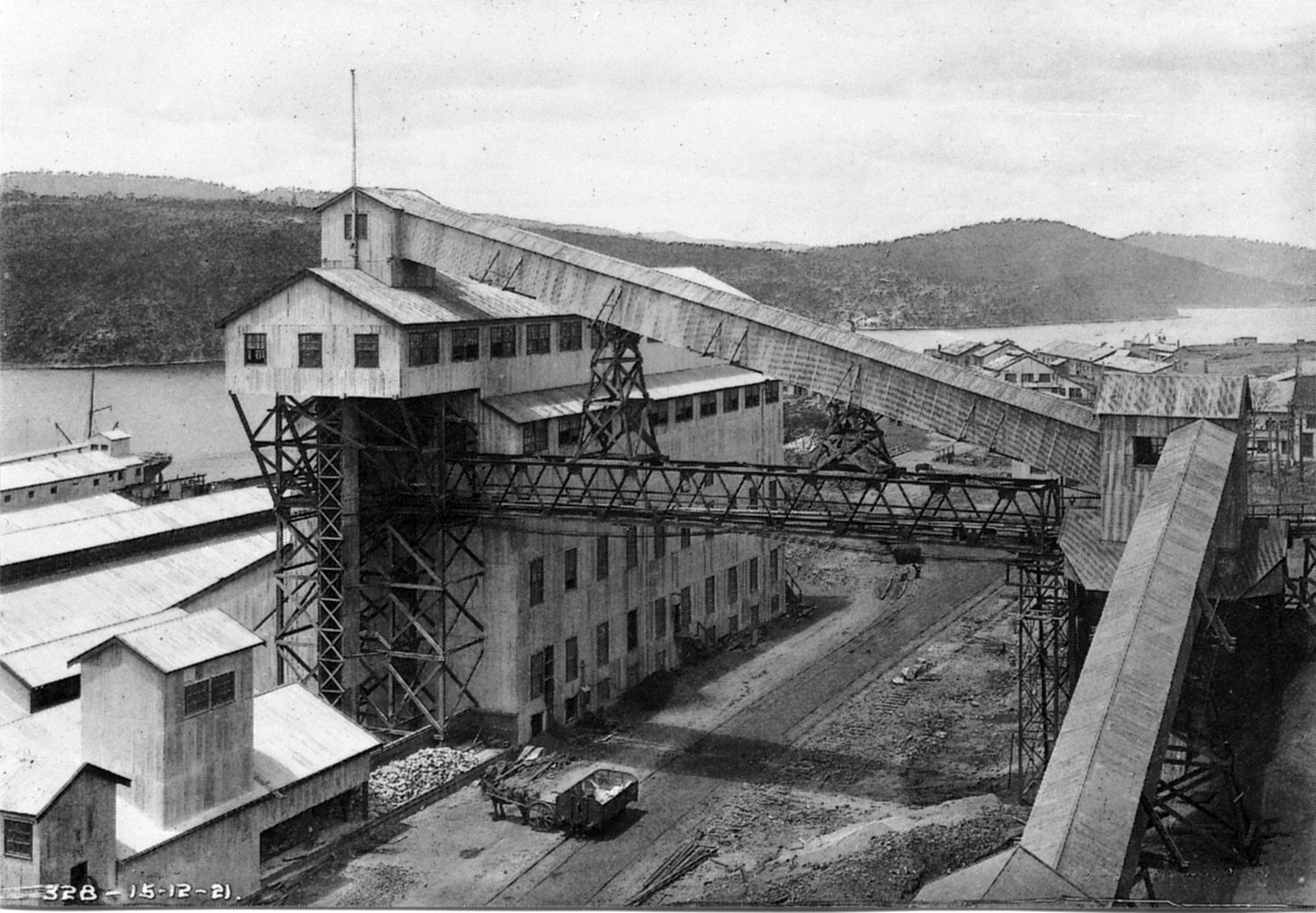 Electrolytic Zinc Company works at Risdon on the Derwent River, December 1921. Ted Lidster collection